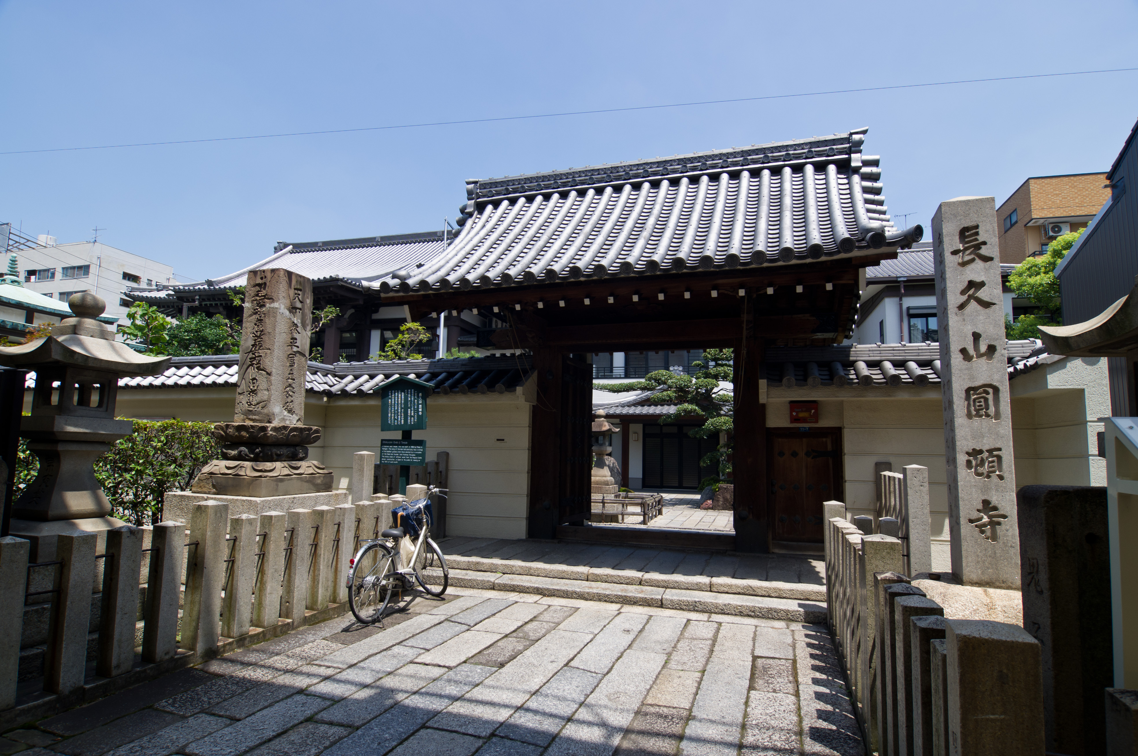 Endonji Temple in Nagoya, Aichi, Japan